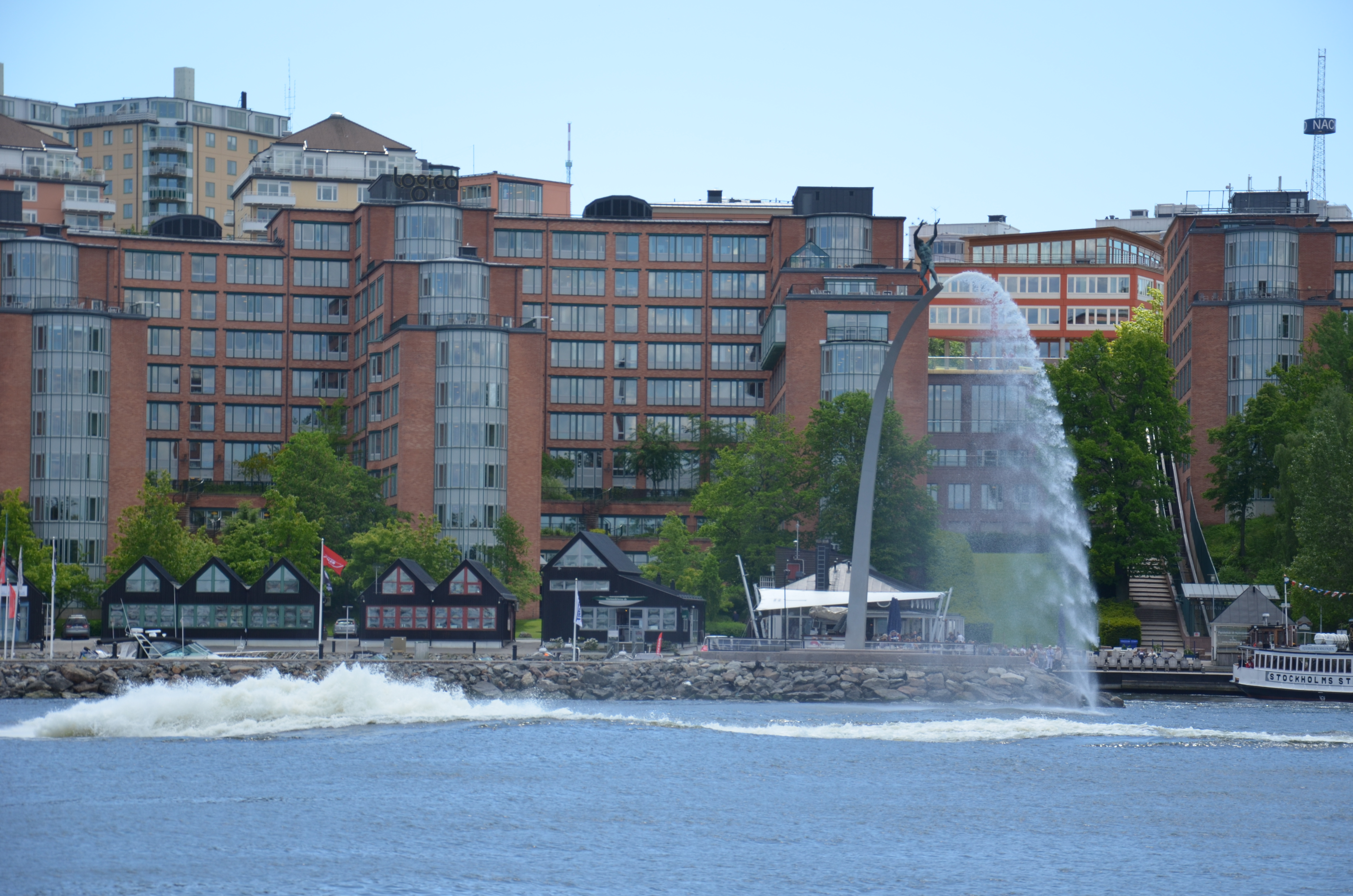 Nacka strand, Nacka, Sweden